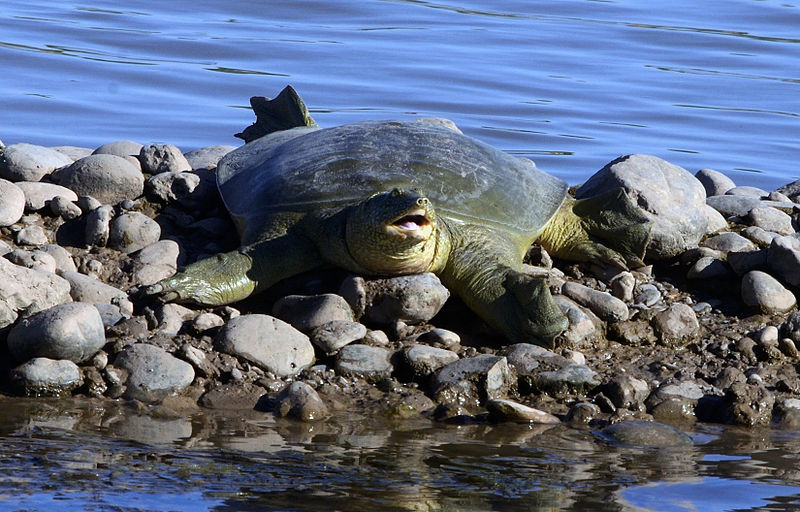 Photo from Wikimedia Commons courtesy of Dûrzan Cîrano shared under Creative Commons licensing: The United States and eight African nations have submitted a proposal to include six species of African and Middle Eastern softshell turtles in Appendix II of CITES.